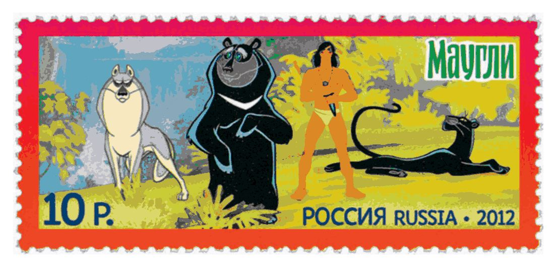 A scene from a Soviet Animation film Adventures of Mowgli on a Russian postal stamp, 2012